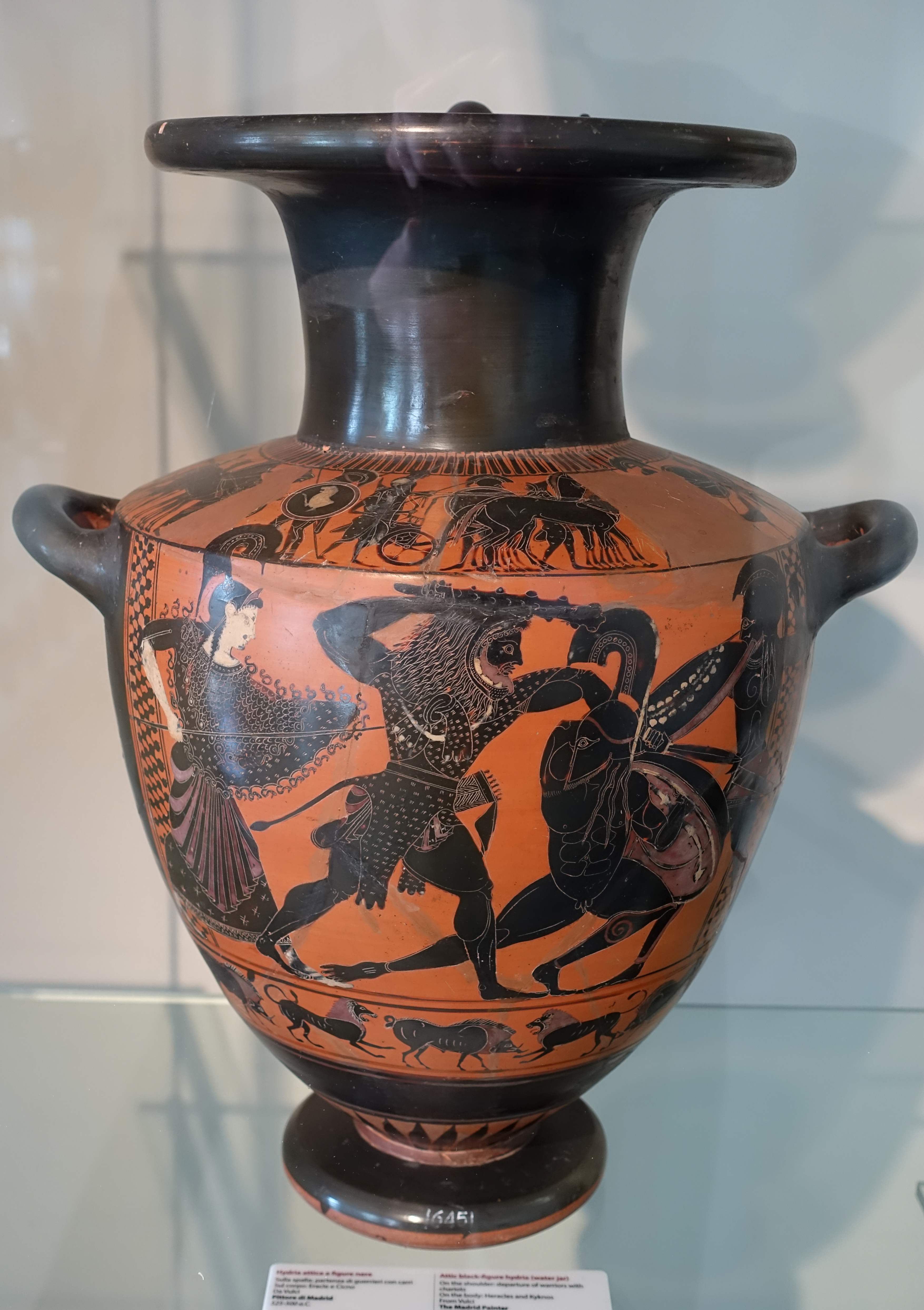 Exhibit in the Museo Gregoriano Etrusco - Vatican Museums.